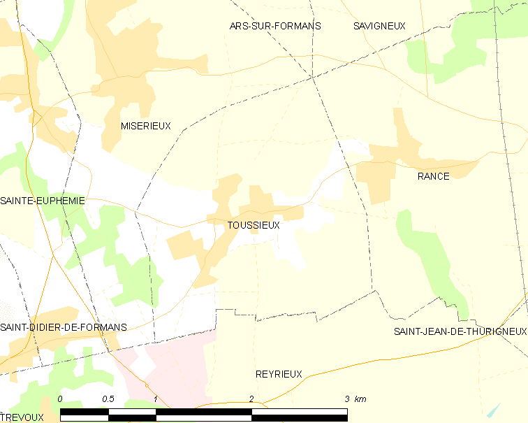 Map of French commune: Toussieux Map commune FR insee code 01423.png